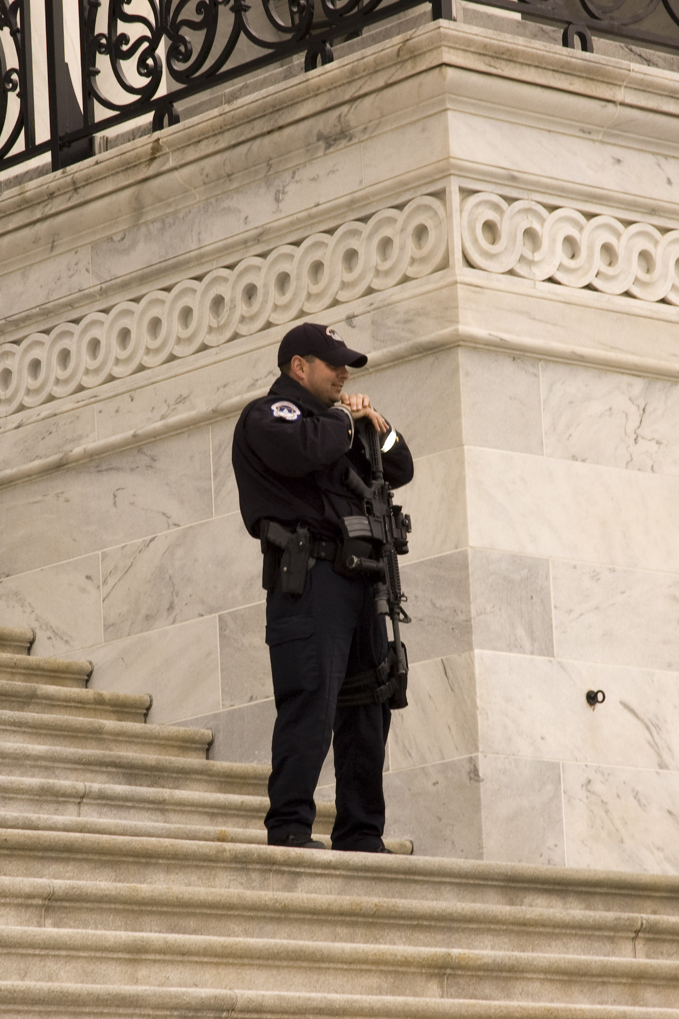 Security at United States Capitol Building